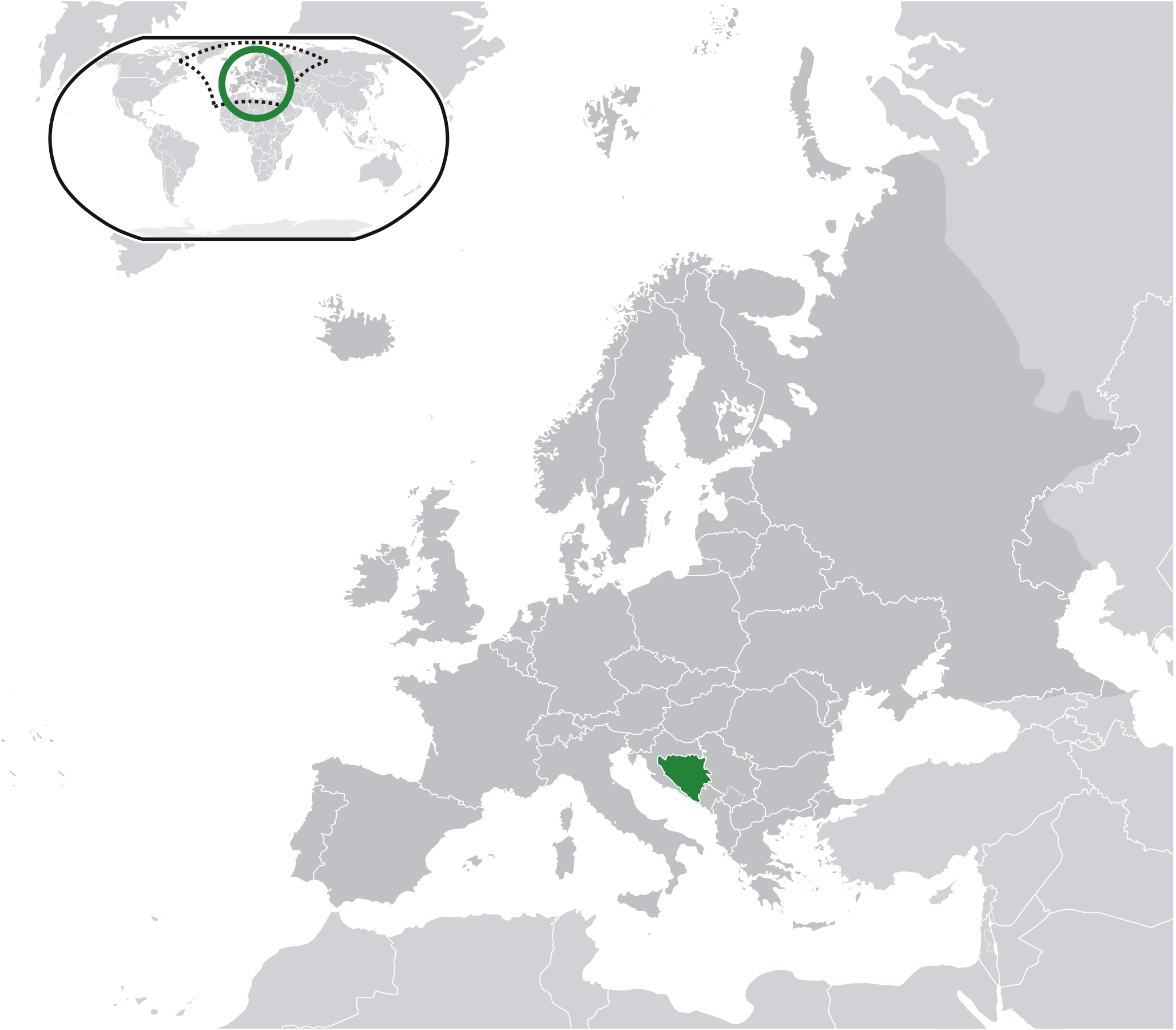 Bosnia and Herzegovina (green): inspired by and consistent with general country locator maps by User:Vardion, et al